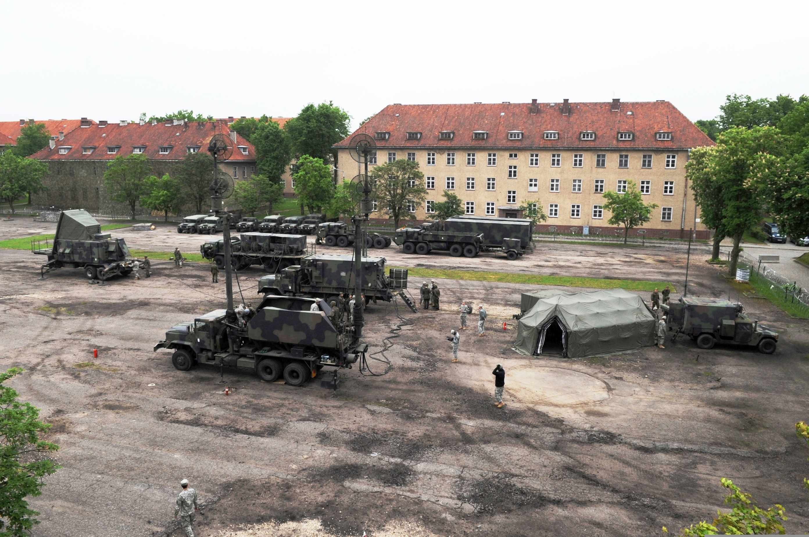 U.S. Soldiers from U.S. Army Europe’s Alpha Battery, 5th Battalion, 7th Air Defense Artillery Regiment, familiarize members of the Polish military with preventive maintenance for Patriot missile systems in Morag, Poland, June 1, 2010. The training marked the first time a U.S. missile system was sent to Poland for a new rotational training program intended to familiarize Polish armed forces on the Patriot missile system. The training was designed to provide mutual benefits for improving Polish air defense capabilities while developing the skills of U.S. Patriot crew members.